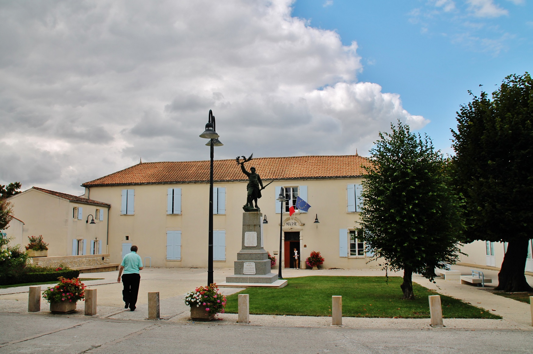 La Mairie